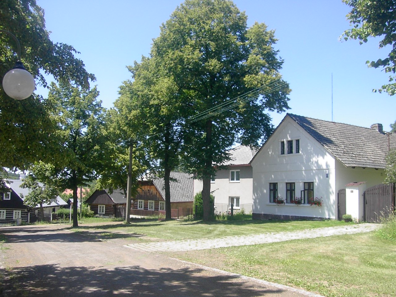 Village square in Olešná, Beroun District, Czech Republic